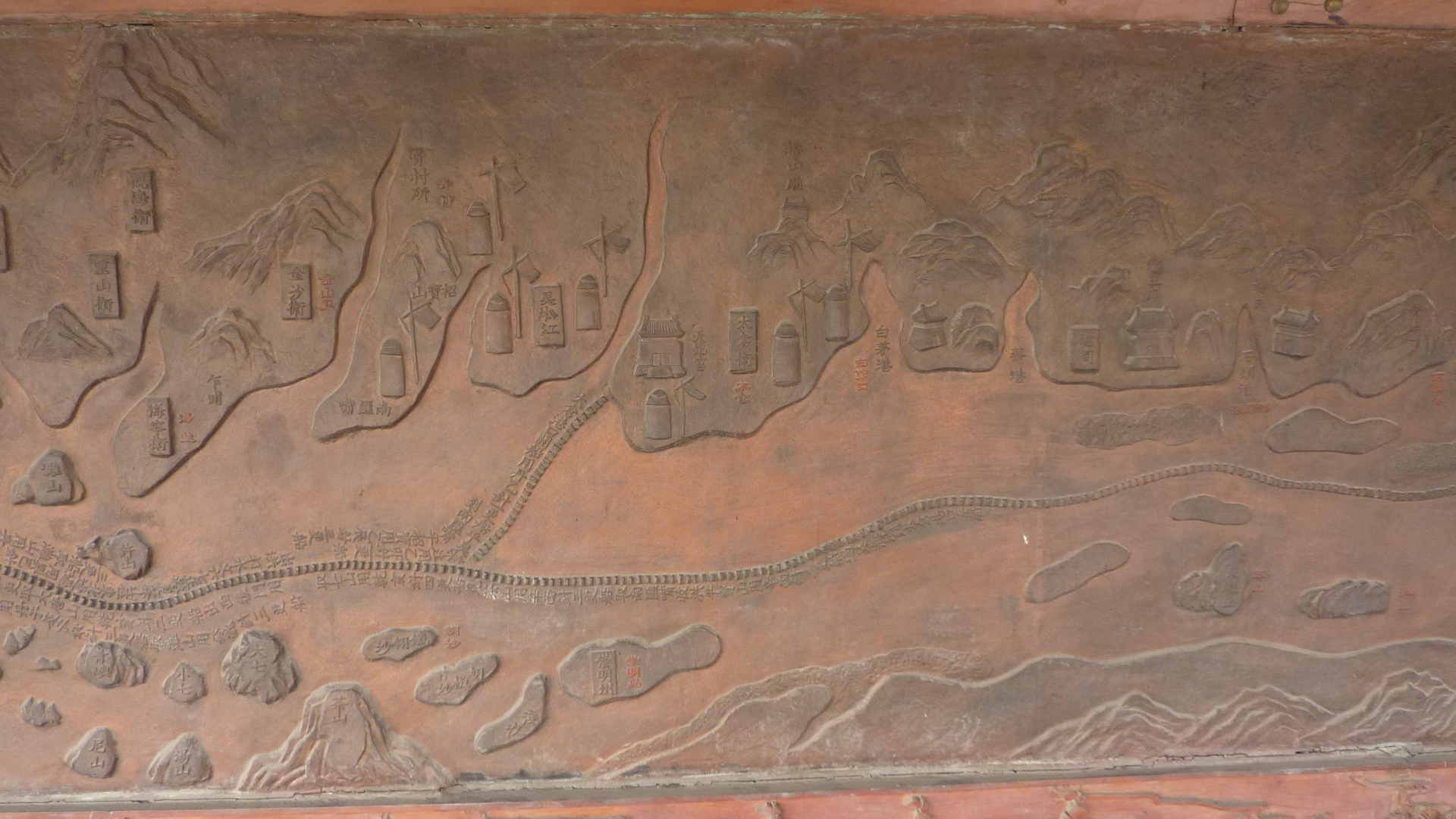 Fragments of the relief running along the northern wall of the Treasure Boat Shipyard Park, showing the route of Zheng He's voyages and various events along it. The underlying map is the famous Mao Kun Map. This section shows the Taicang (Liujiagang) area on the lower Yangtze.